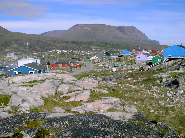 Village of Queqertarsuaq on Disko Island, Greenland